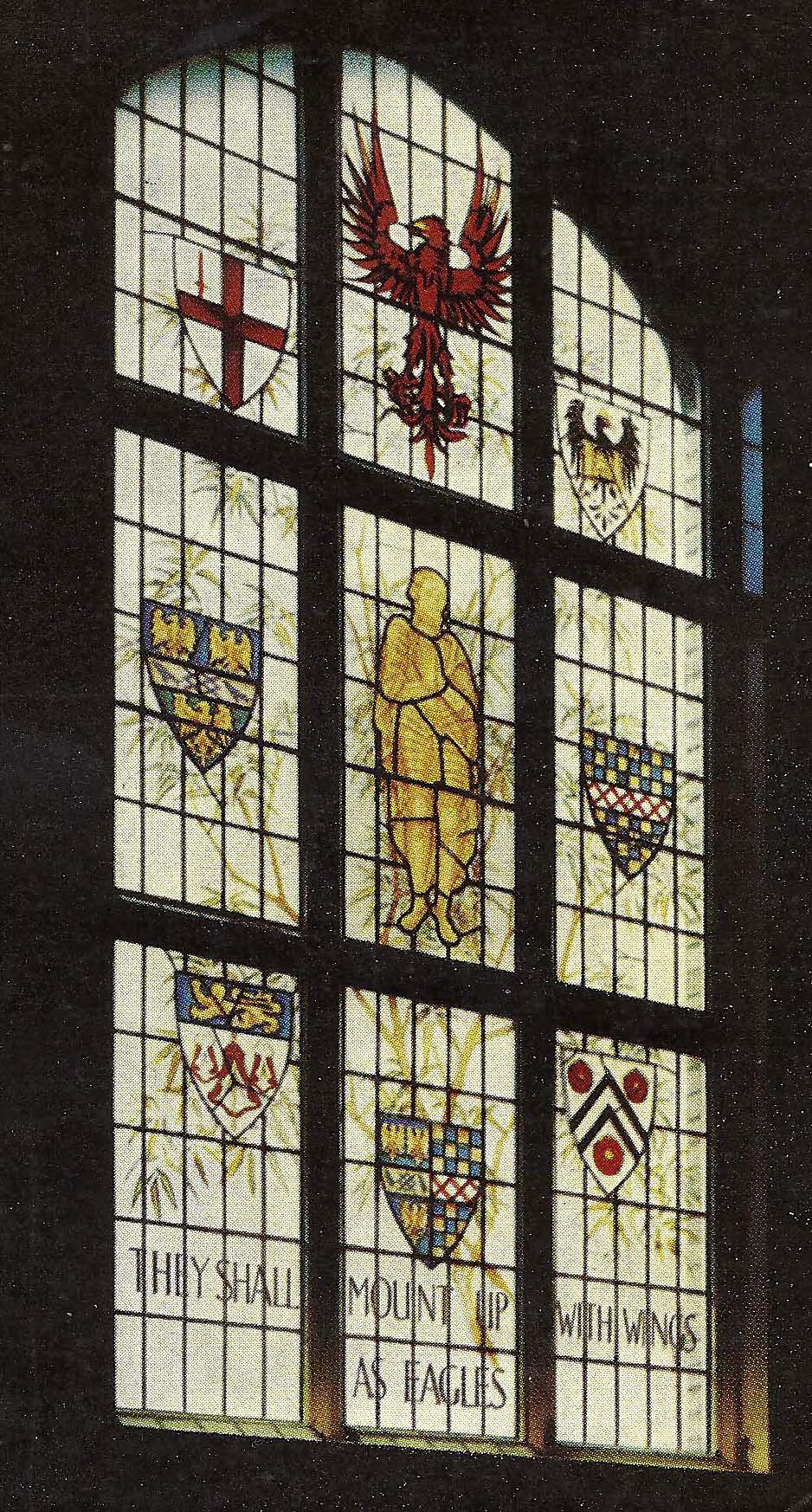 The Harpur Window, Bedford Modern School. This picture appeared in a Commemorative Edition of The Eagle, The Magazine of Bedford Modern School, 1974